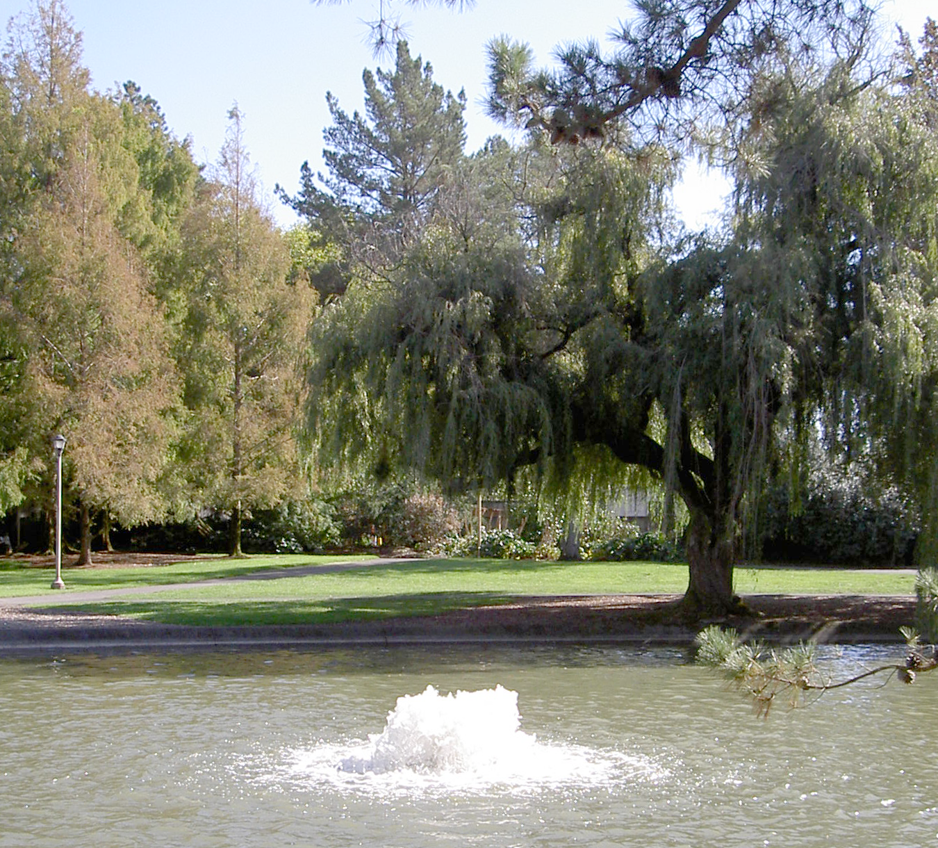 The fountain in the artificial lake just north of the Commons building on the Sonoma State Campus in Rohnert Park, California, USA.